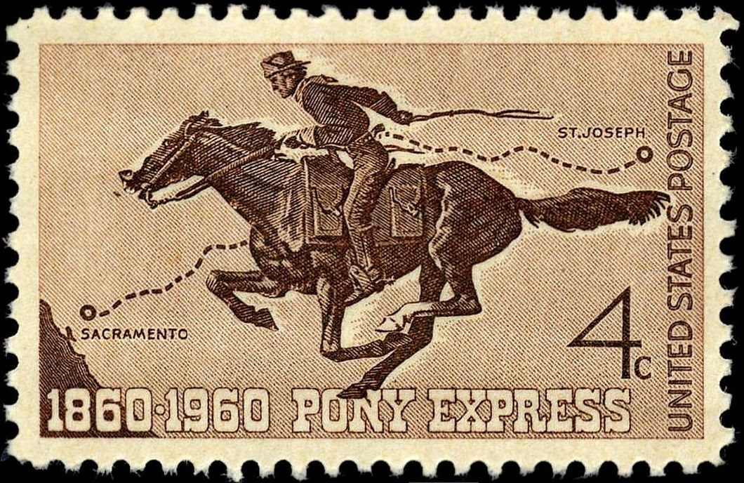 Pony Express 100th anniversary commemorative issue of 1960